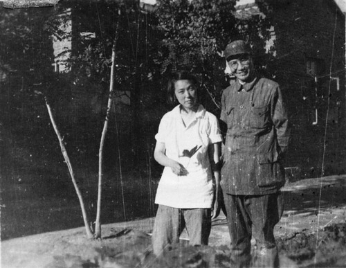 Pan Zili and his wife Yao Shuxian in honeymoon, photograph by Sha Fei.